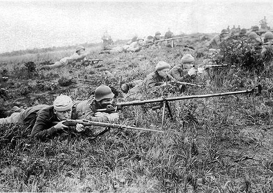 Soviet tank busters on the island of Shumshu during the Kuril landing operation, August 1945.